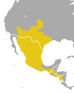 Geographic range of the American Hog-nosed Skunk, species: Conepatus leuconotus. Includes national borders.